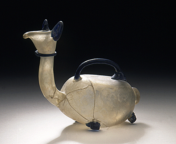 Probably Iran, 10th century Furnishings; Accessories Glass, free-blown, with applied decoration 3 3/16 x 2 3/16 x 4 3/8 in. (8.10 x 5.56 x 11.11 cm) Gift of Varya and Hans Cohn (M.88.129.187) Islamic Art Currently on public view: Ahmanson Building, floor 4